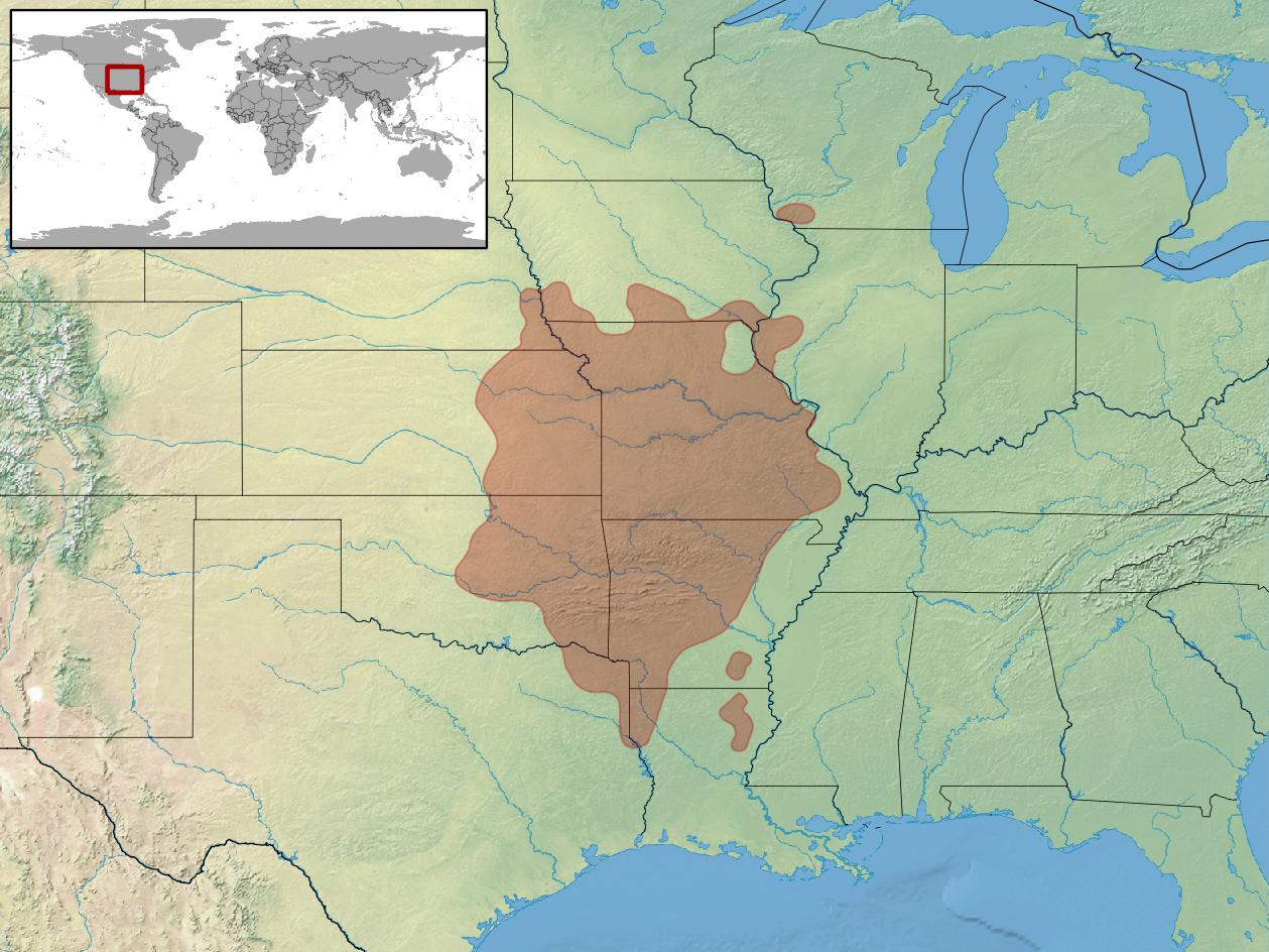 geographic distribution of Carphophis vermis (Native: United States)